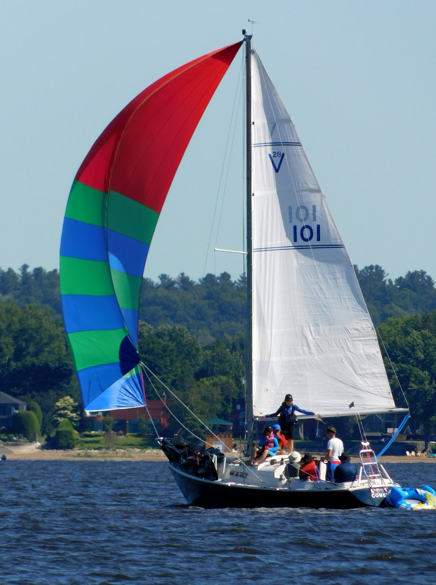 A Viking 28 sailboat named Comet, sailing downwind, with spinnaker flying.